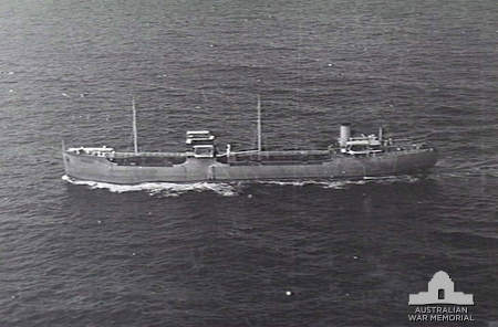 Aerial port side view of the Norwegian tanker Falkefjell which was in Australian waters and place under British control after the German invasion of Norway in 1940. She served as a fleet oiler with the RAN from December 1941 until April 1942.